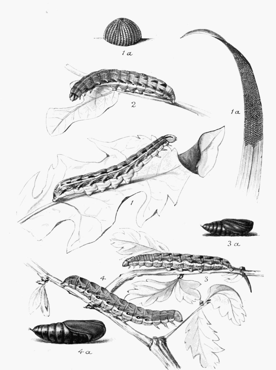 Plate 118. DescriptionBinomial in textModern accepted name1, 1a. Large Yellow Underwing: eggs and caterpillar.Triphæna pronubaNoctua pronuba2. Lesser Yellow Underwing: caterpillar.Triphæna comesNoctua comes3, 3a. Lesser Broad-border: caterpillar and chrysalis.Triphæna ianthinaNoctua janthe4, 4a. Broad-bordered Yellow Underwing: caterpillar and chrysalis.Triphæna fimbriaNoctua fimbriata